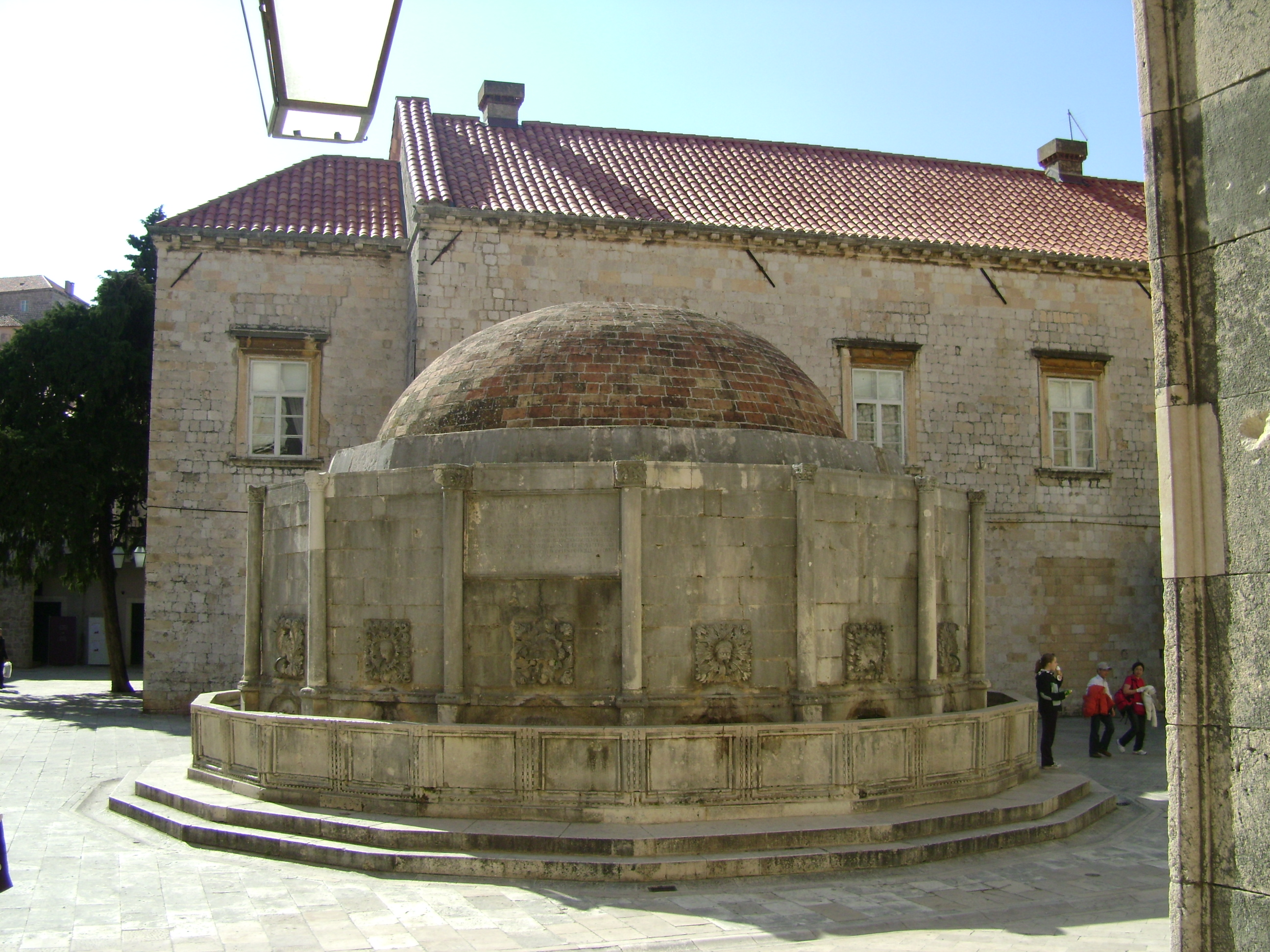 Dubrovnik, old town, monuments Big Onofri fountain